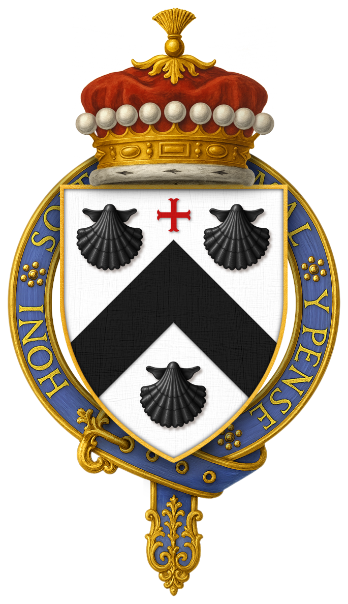 Coat of Arms of Oliver Lyttelton, 1st Viscount Chandos, KG, DSO, MC, PC